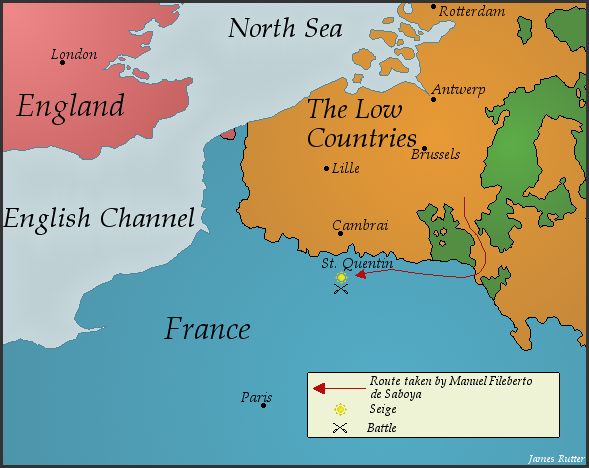 map of situation of the Battle of San Quintin